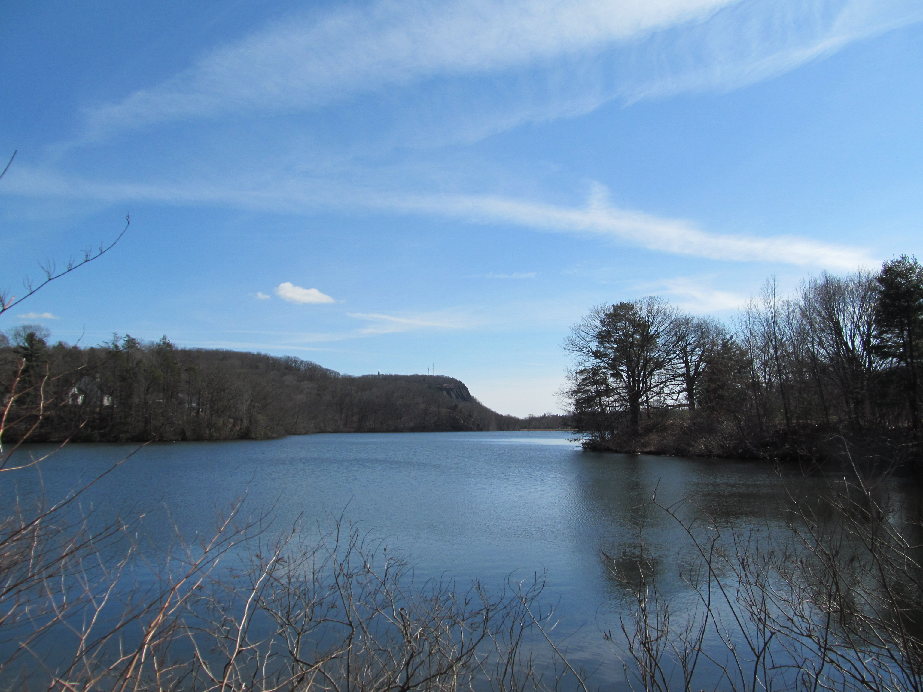 Lake Whitney, Whitneyville Connecticut